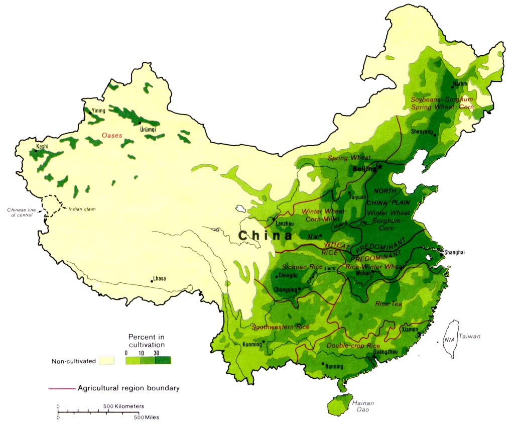 Maps of China: Agricultural regions of China – Note: Boundary representation is not necessarily authoritative.